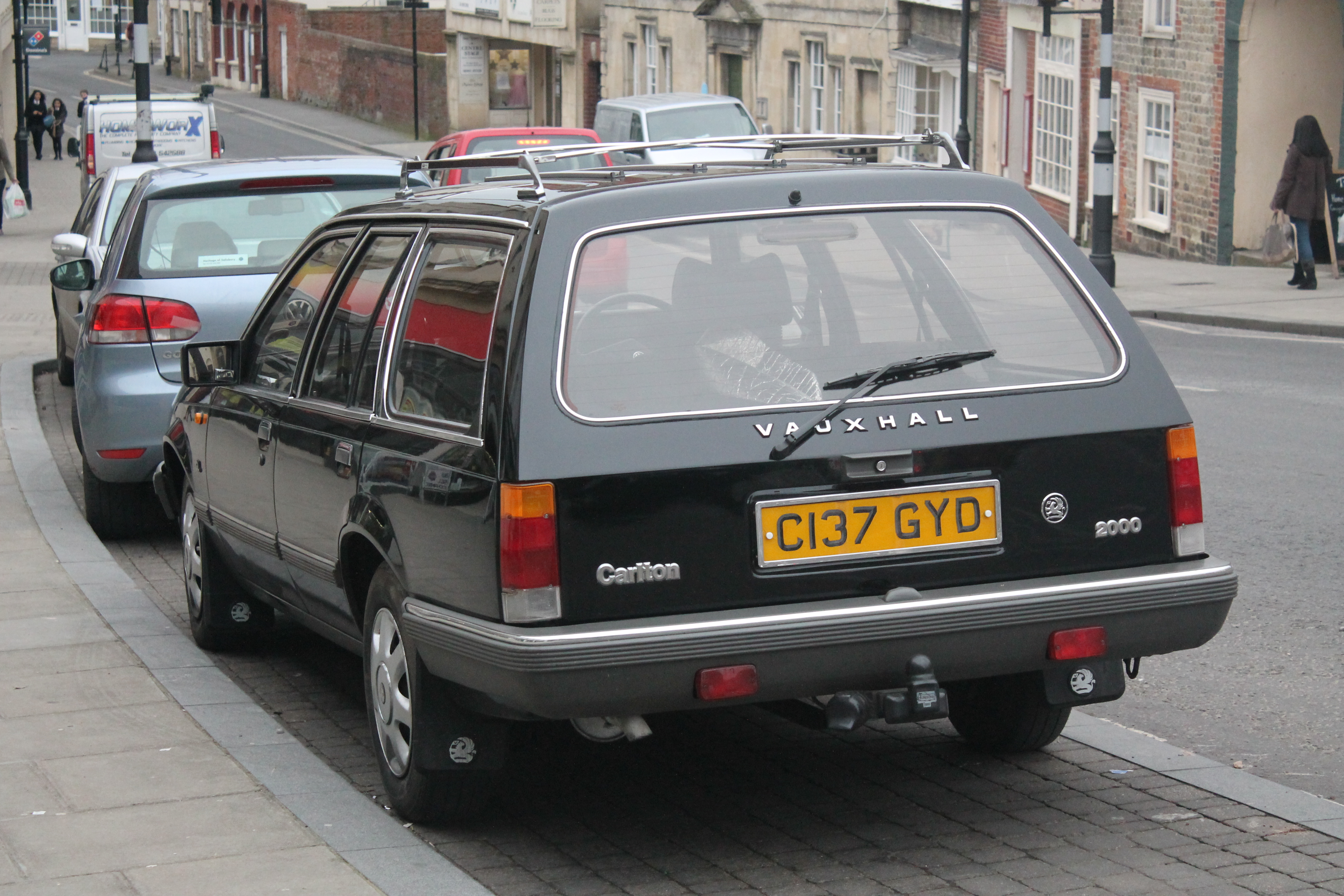 These are really very hard finds, I don't even see late Carltons, let alone a facelifted Mk1 like this. The owner's done a good job of modernising this one, with the addition of a newer Vauxhall badge and newer Vauxhall wheels. I must say, it didn't look its 28 years. Well looked after too. I've walked this street hundreds of times and never seen this, so a nice surprise. One of 10 on the roads, with only one other surviving from 1986. The vehicle details for C137 GYD are: Date of Liability 01 07 2014 Date of First Registration 01 04 1986 Year of Manufacture 1986 Cylinder Capacity (cc) 1979cc CO₂ Emissions Not Available Fuel Type PETROL Export Marker N Vehicle Status Licence Not Due Vehicle Colour BLACK Vehicle Type Approval Not Available